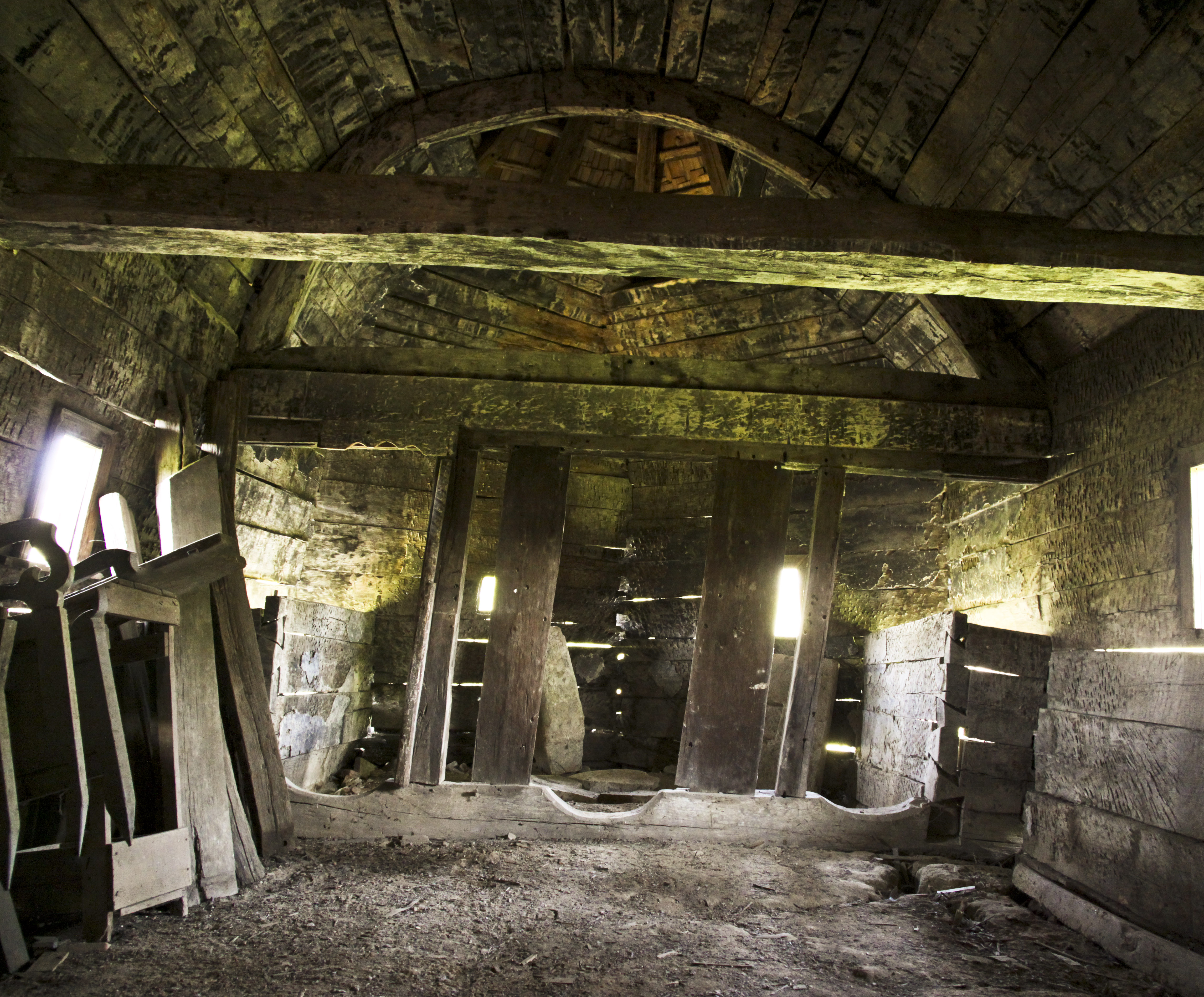 Scoarţa-Cârţineşti, Gorj county, Romania: the wooden church.